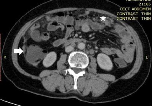 CT of peritoneal carcinomatosis with peritoneal thickening and omental deposits. For context, see Peritoneal carcinomatosis.